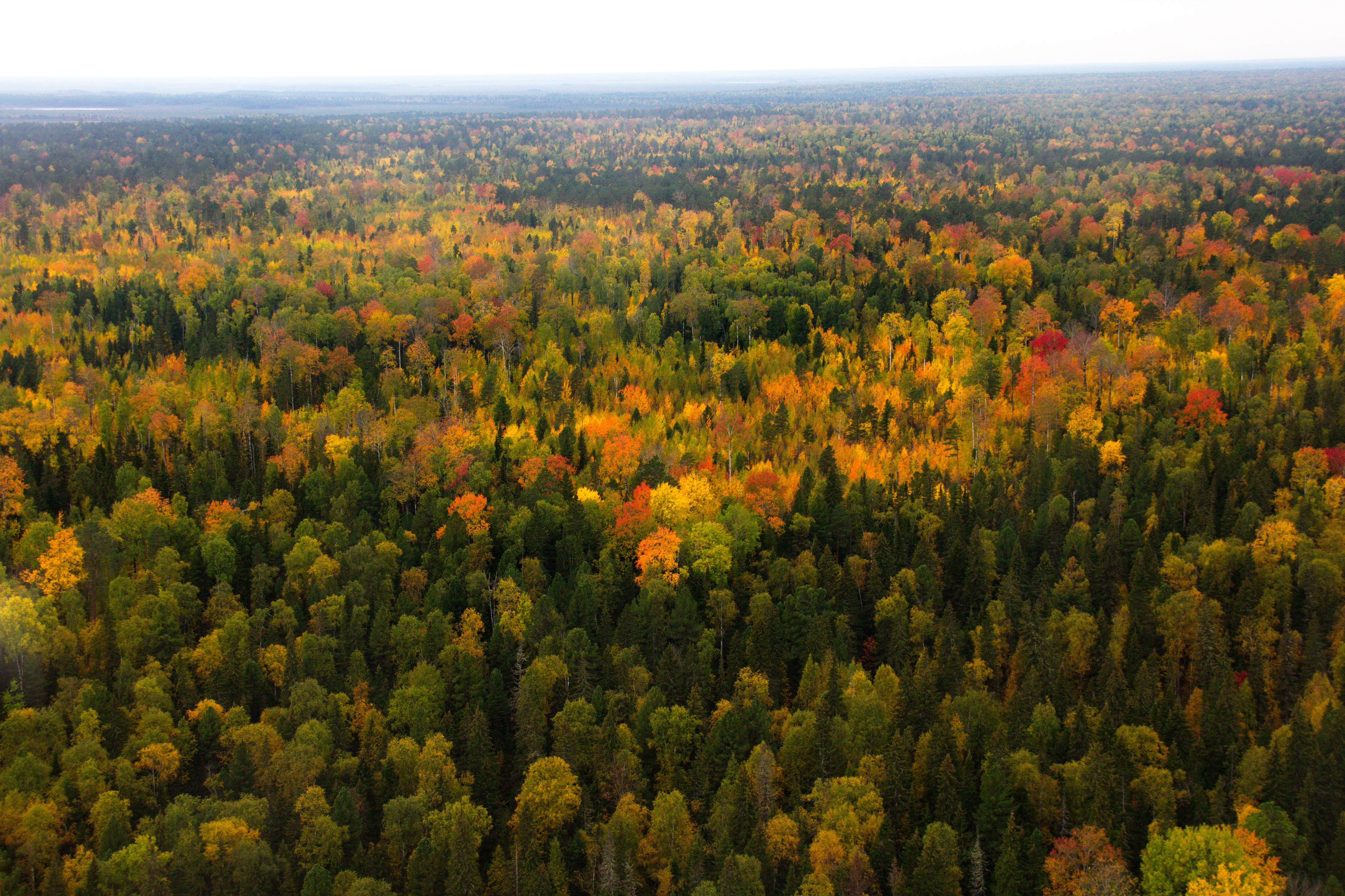 Endless forest of Yugansky nature reserve as far as your eyes can see. Russia, Khanty-Mansia (Yugra), Surgut district.